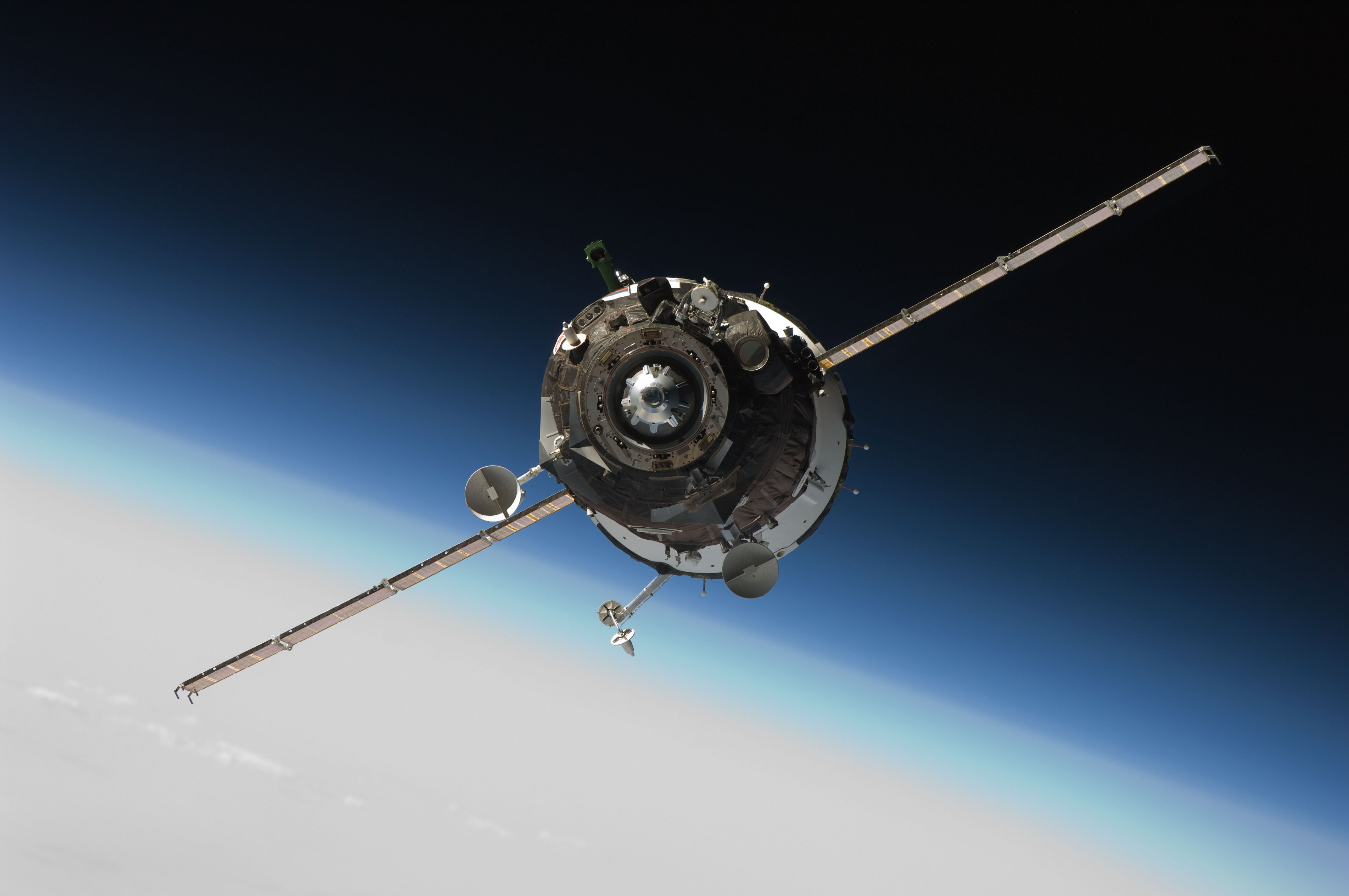 The Soyuz TMA-16 spacecraft approaches the International Space Station, carrying NASA astronaut Jeffrey Williams, Expedition 21 flight engineer; Russian cosmonaut Maxim Suraev, Soyuz commander and flight engineer; and spaceflight participant Guy Laliberte. Williams and Suraev will spend six months on the station, while Laliberte will return to Earth on Oct. 10 with two of the Expedition 20 crew members currently on the complex. Docking to the Zvezda Service Module aft port occurred at 3:35 a.m. (CDT) on Oct. 2, 2009.